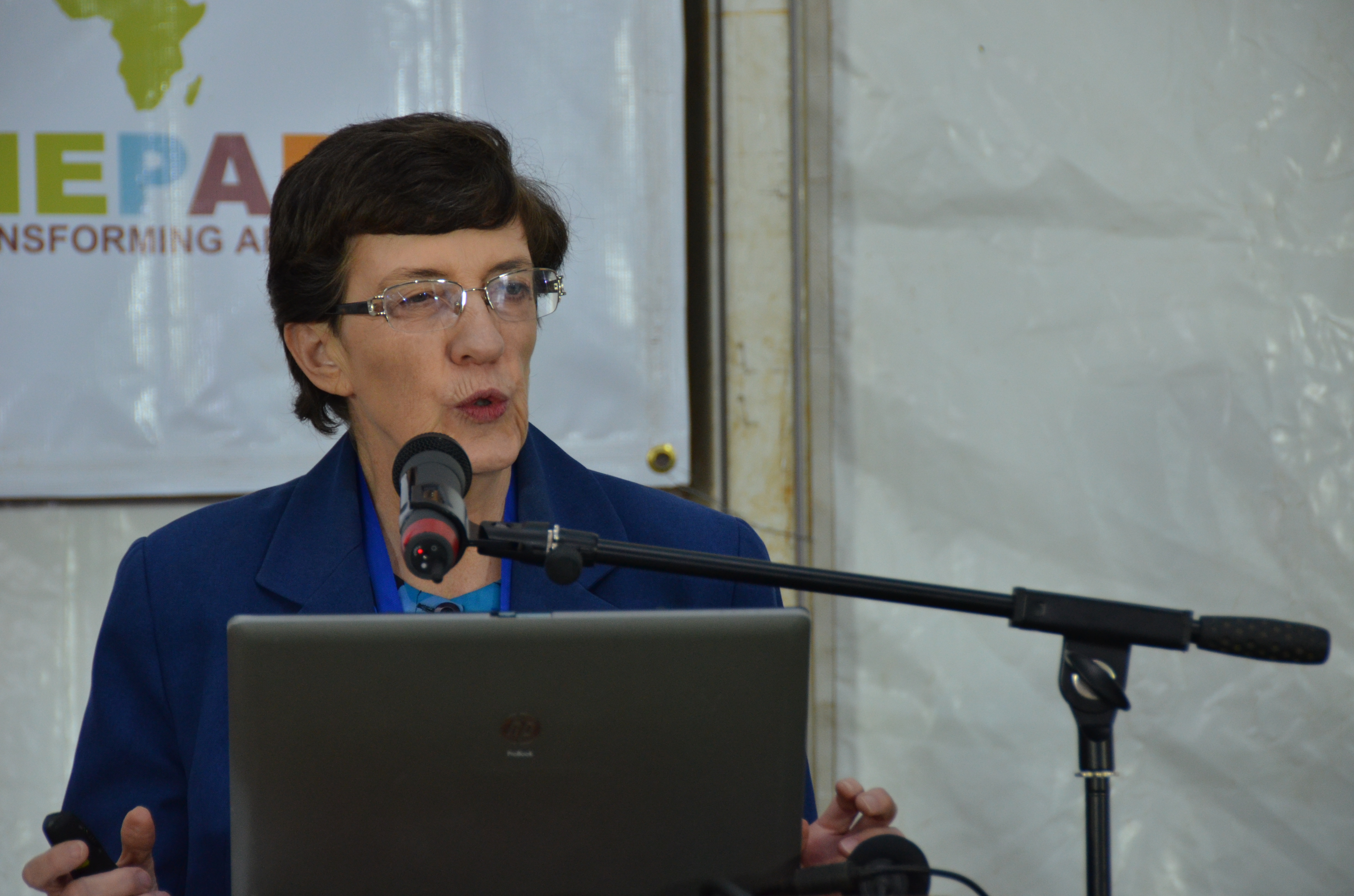 On 3 Feb 2016, the BecA-ILRI Hub marked its 15-year anniversary with an event at ILRI's Nairobi headquarters (photo credit: ILRI/Samuel Mungai).